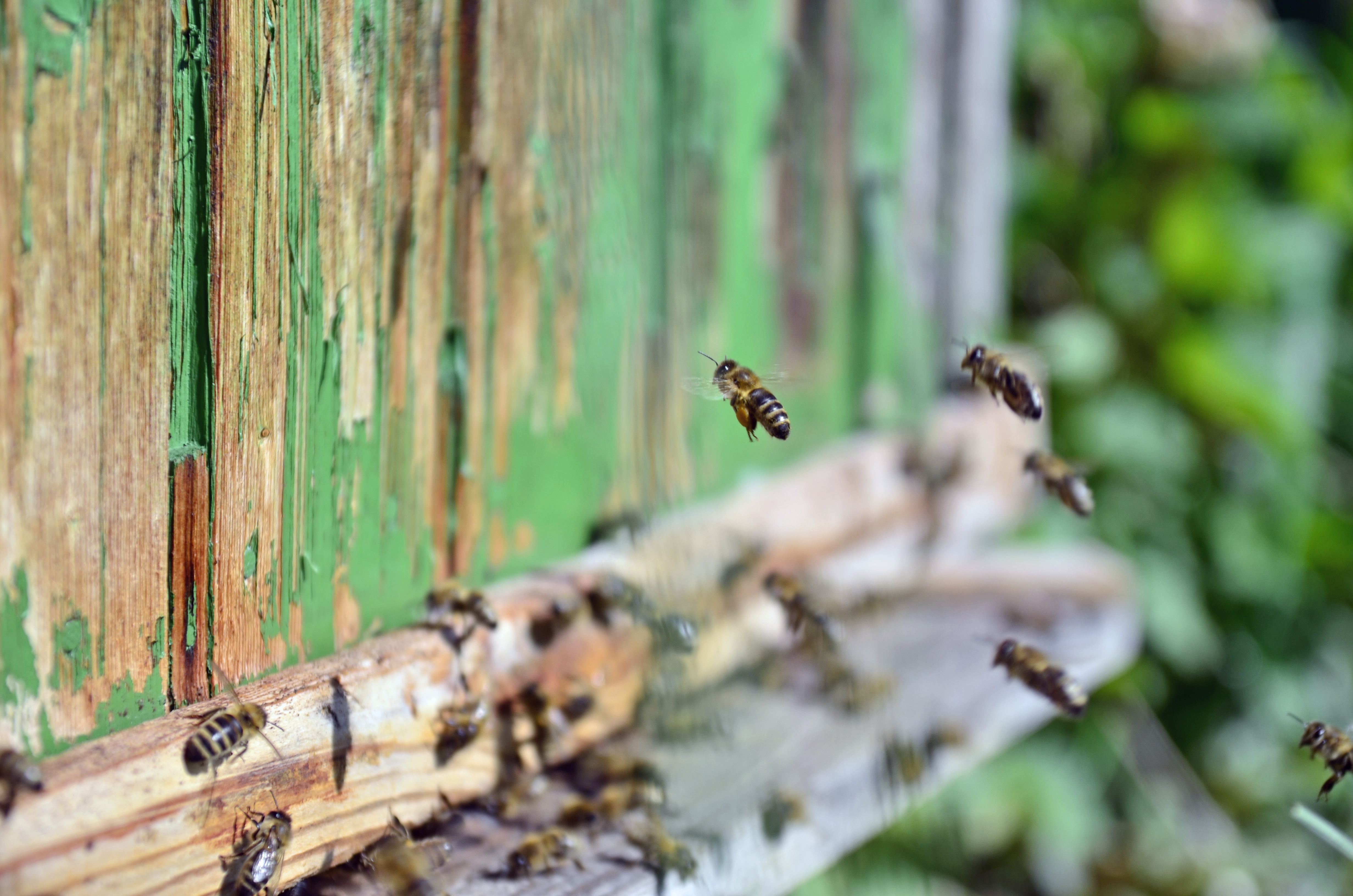 Bees